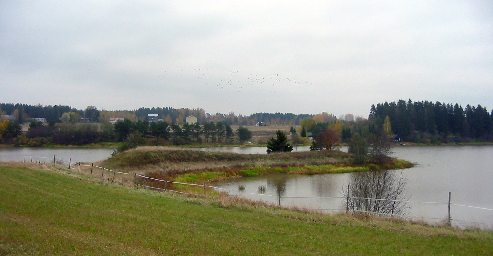 Napinniemi in lake Pitkäjärvi, Somero, Finland